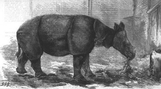 Javan Rhino in London Zoo in 1874, from The Graphic 1874 May 9